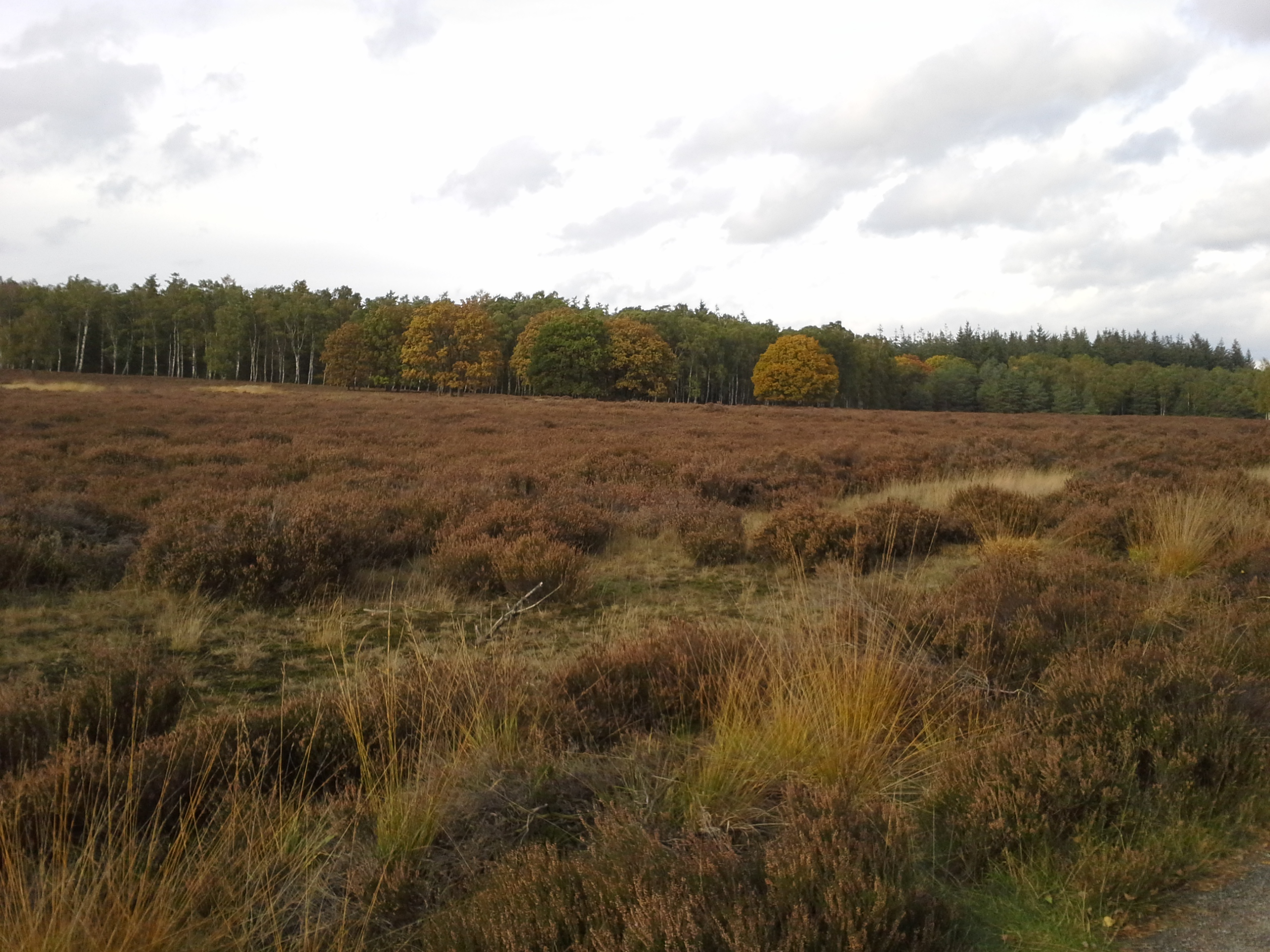 Heither and Eerbeekse Veldpad Loenen Hoge Veluwe Nederland